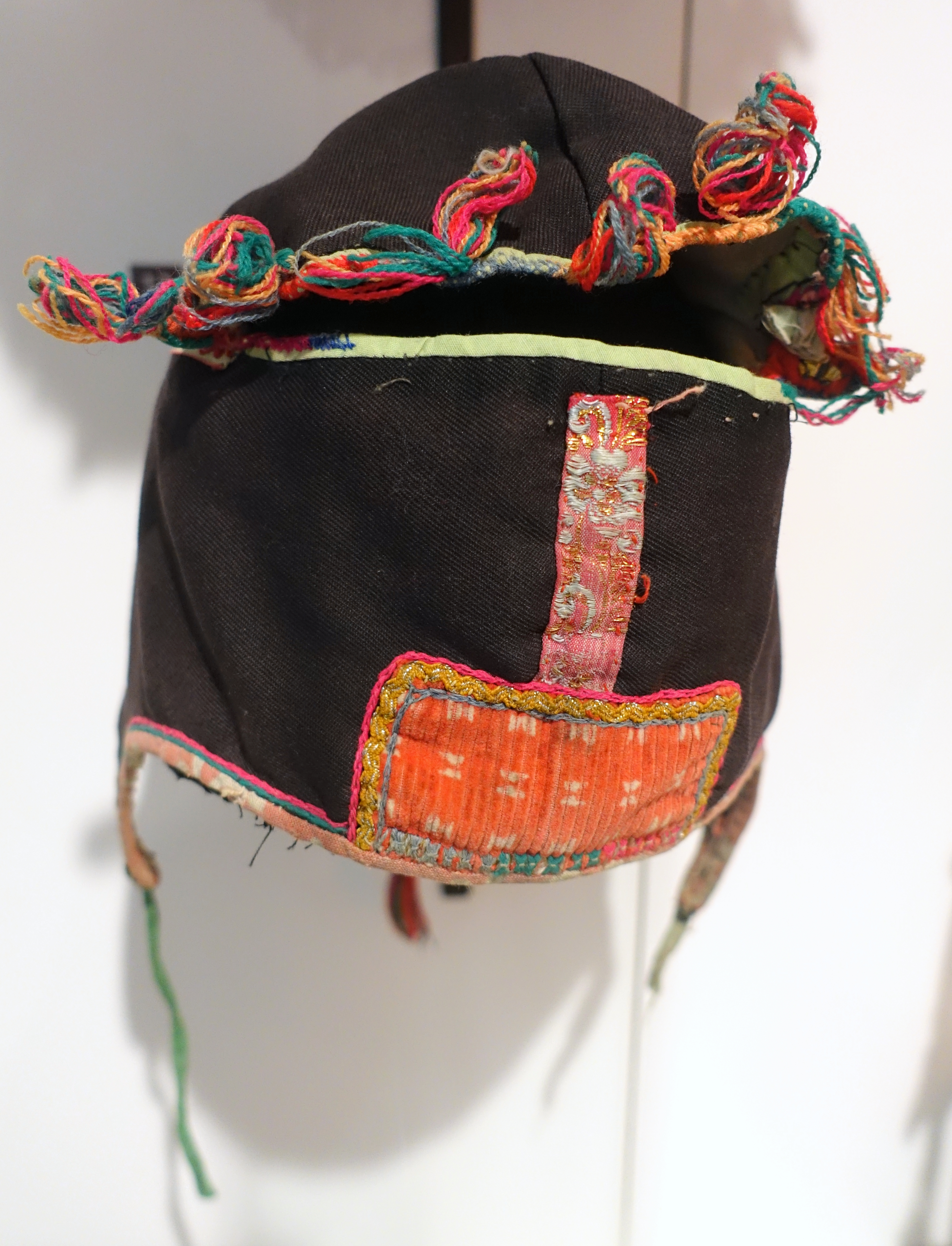 Exhibit in the Vietnamese Women's Museum, Hanoi, Vietnam.